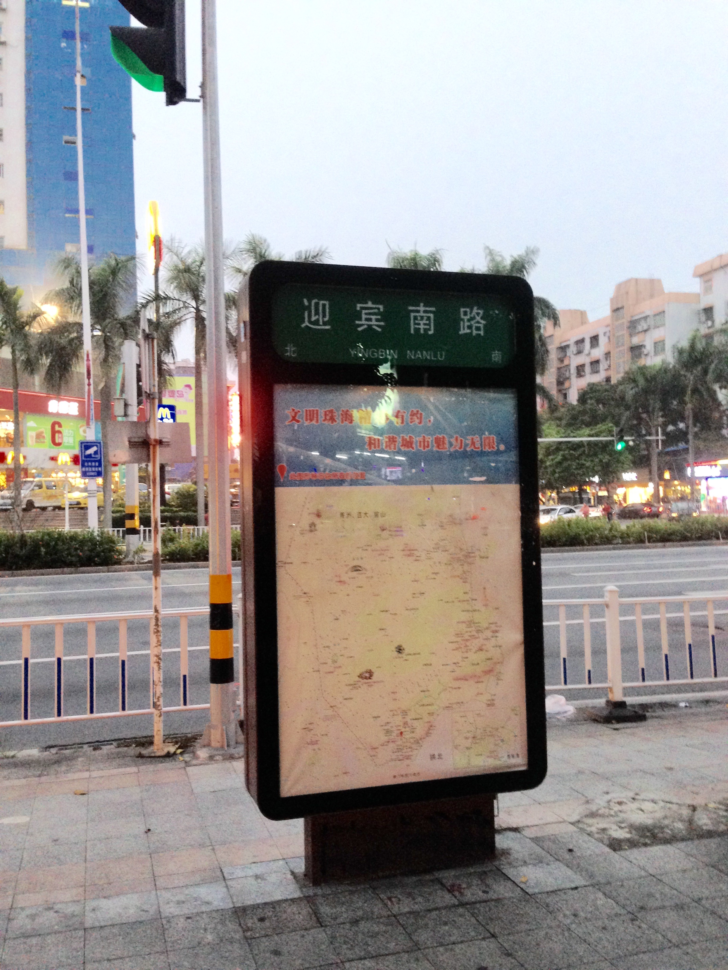 Zhuhai Yingbin South Road